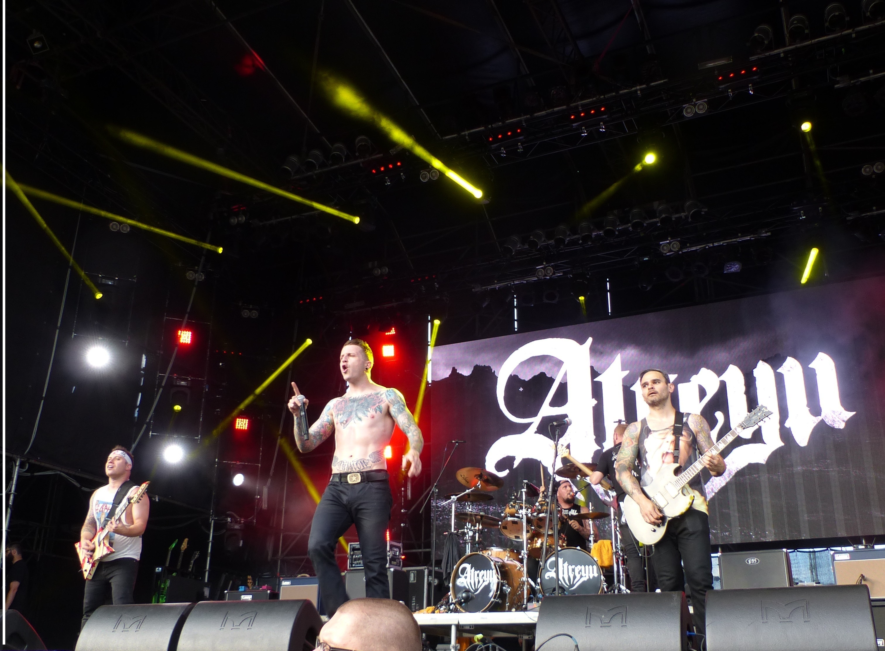 Taken on Tuesday, the 14th of June, 2016. Budapest Park, Budapest. Alex Varkatzas, lead guitarist Dan Jacobs, rhythm guitarist Travis Miguel, bassist Marc McKnight and drummer/vocalist Brandon Saller.